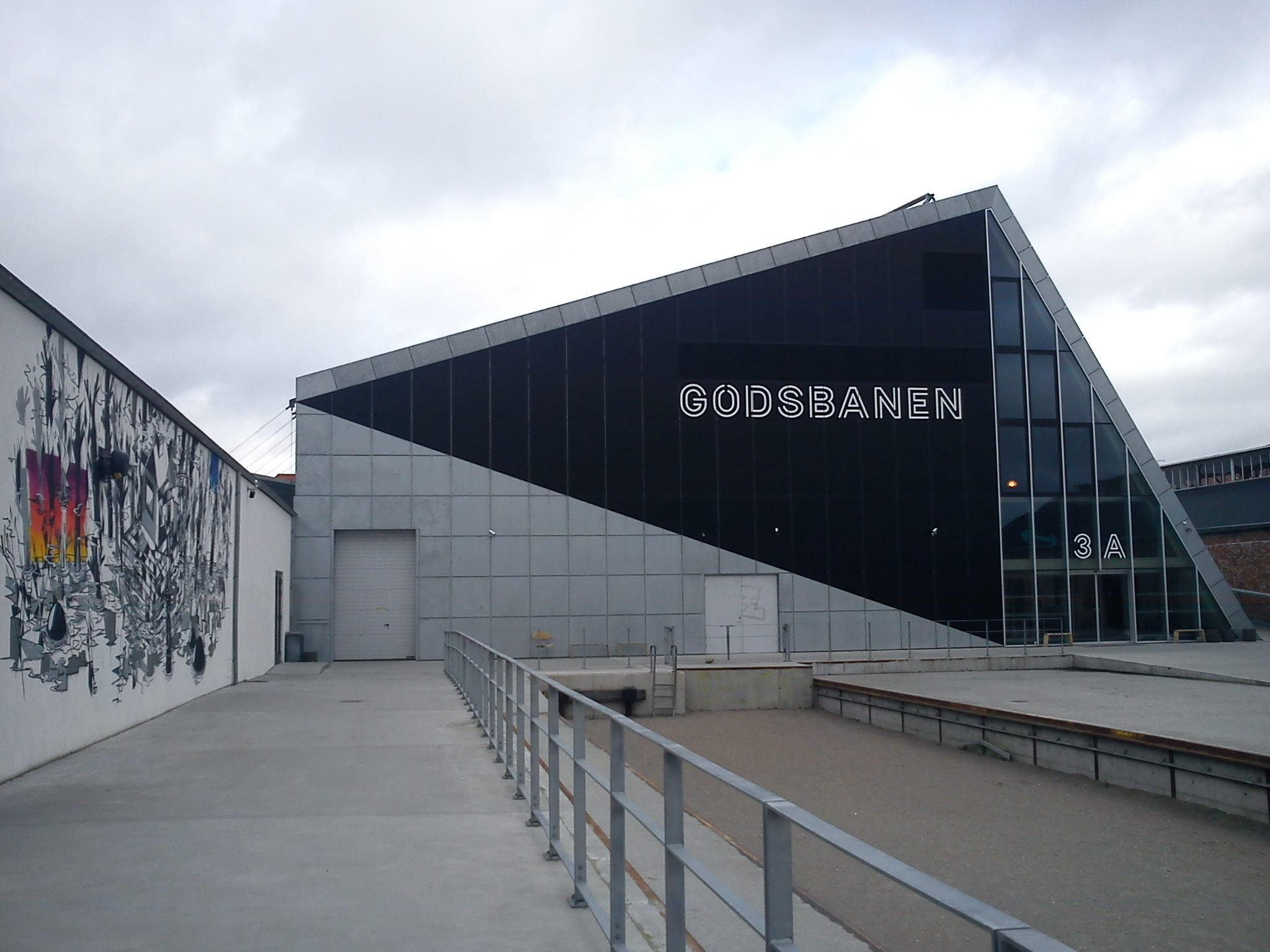 Godsbanen